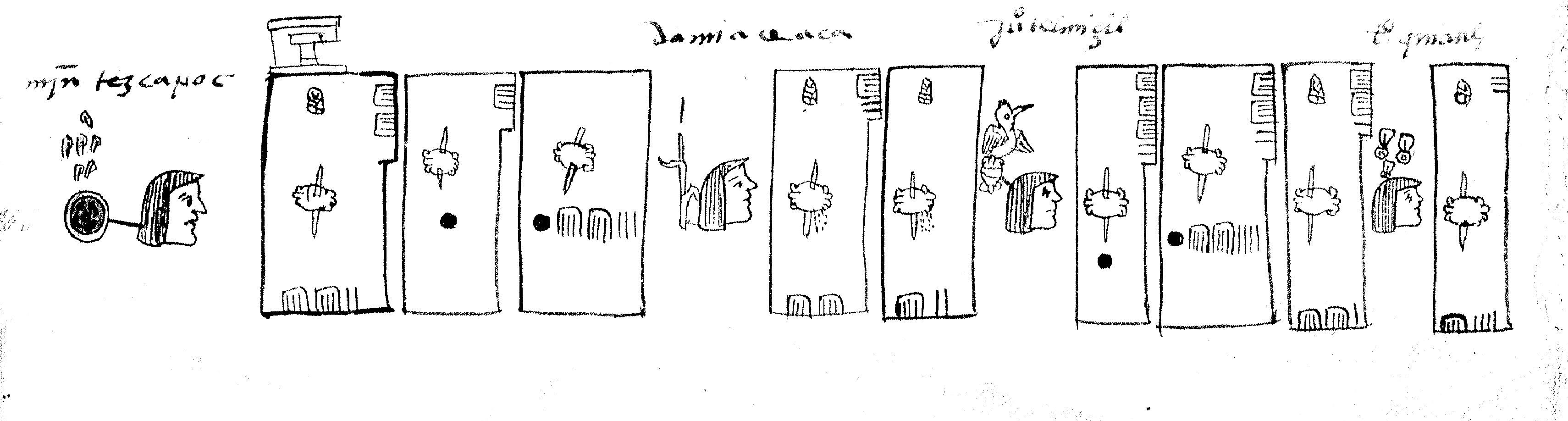 Pictographs of land perimeters and areas by Tlacuilo from Acolhua in Codex Santa María Asunción